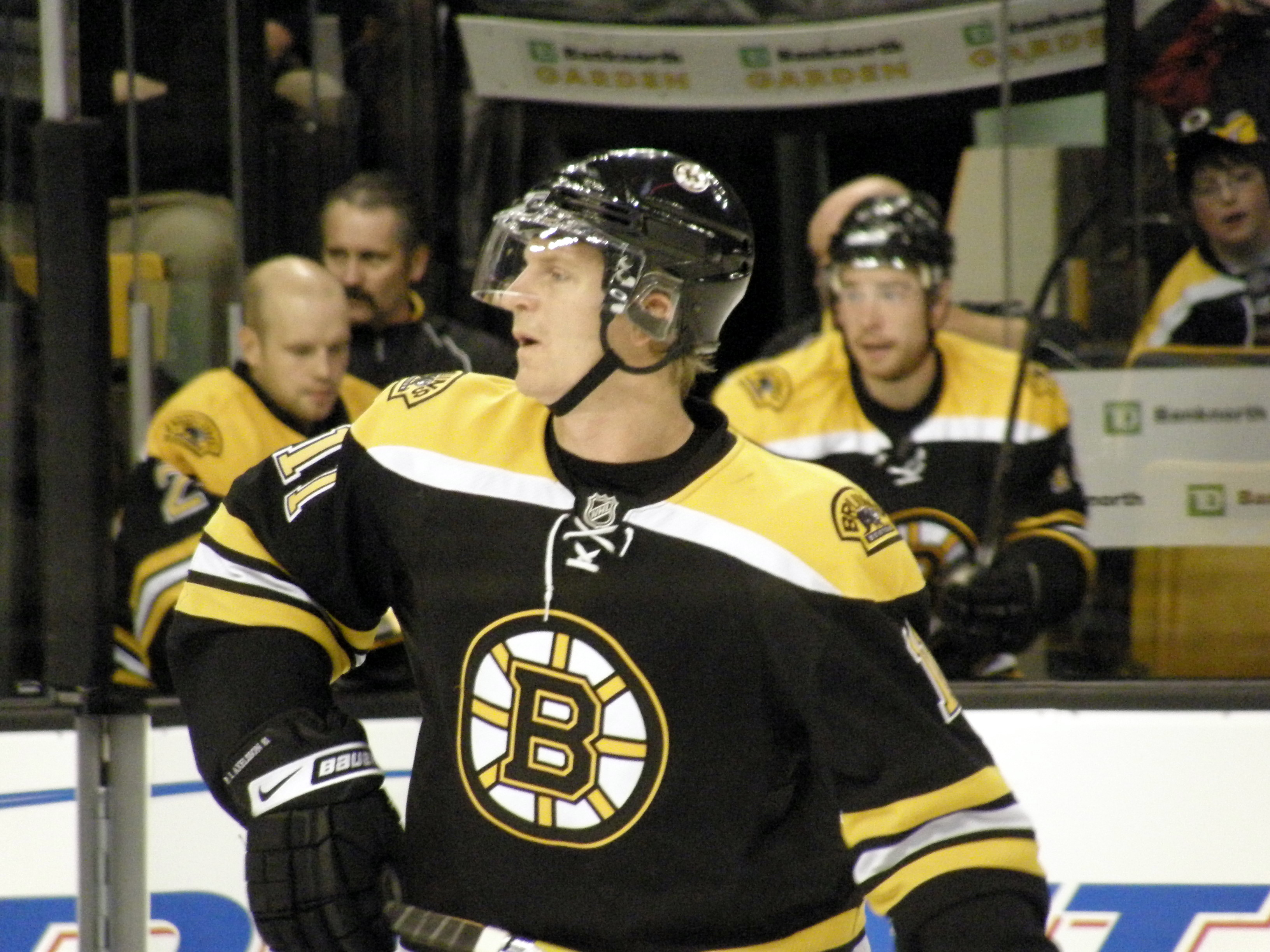 #11 P.J. Axelsson, left wing for the Boston Bruins